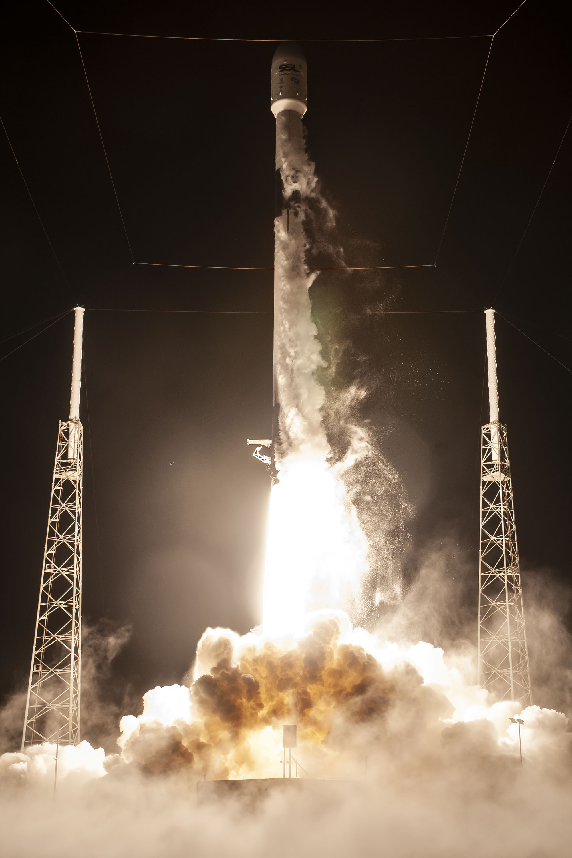 Lift off of the Falcon 9 with the geostationary satellite Nusantara Satu and the Beresheet lunar probe.